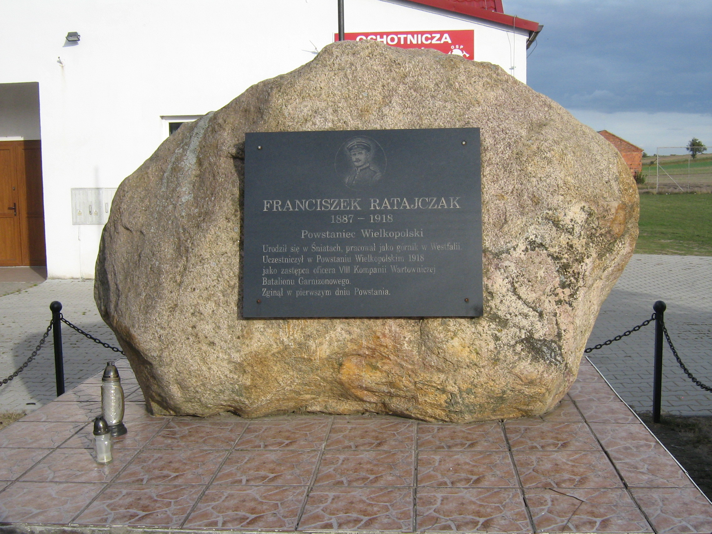 Monument of Franciszek Ratajczak in Śniaty